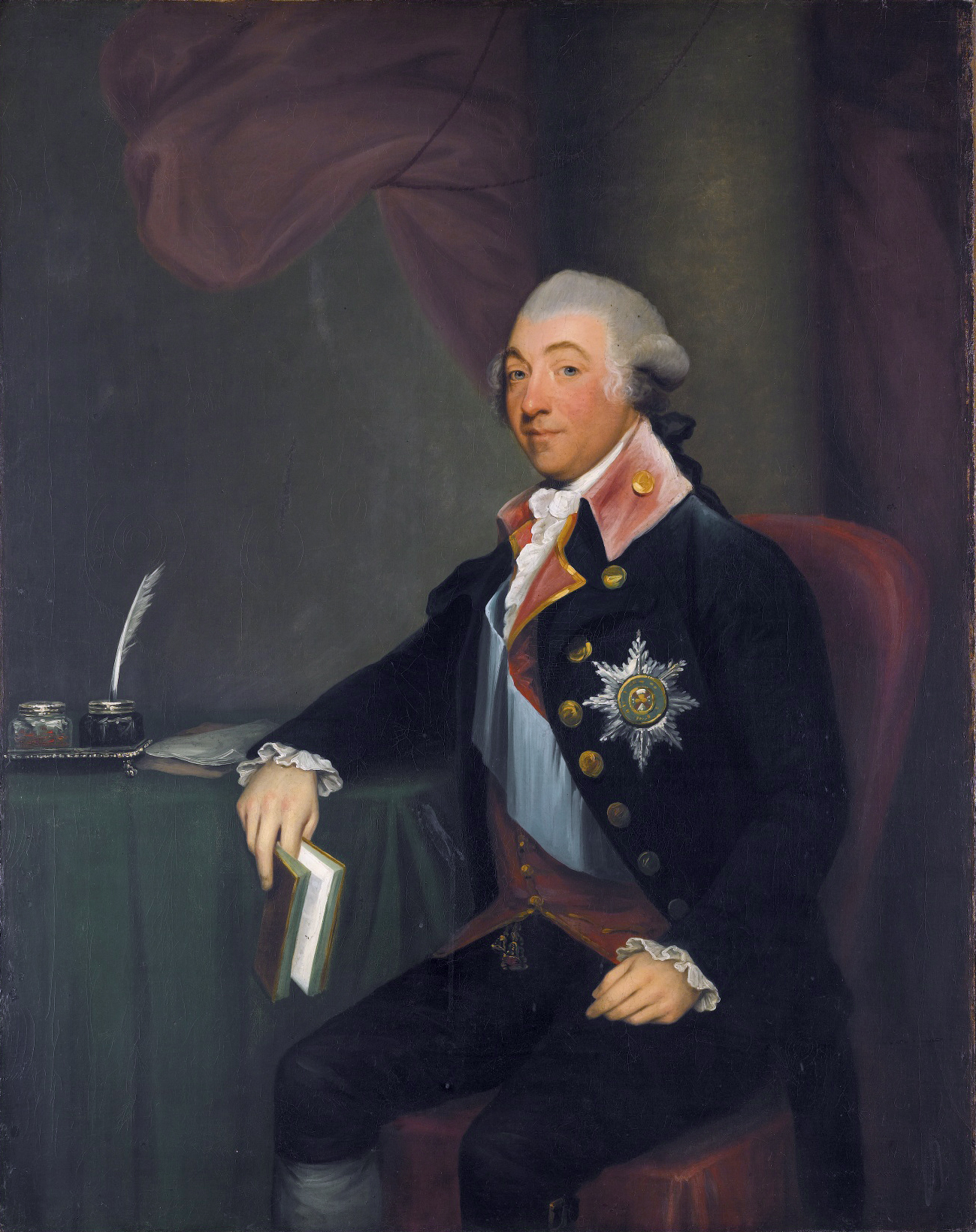 Thomas Taylour, 1st earl of Bective (1724-1795) oil on canvas 127.5 x 101 cm